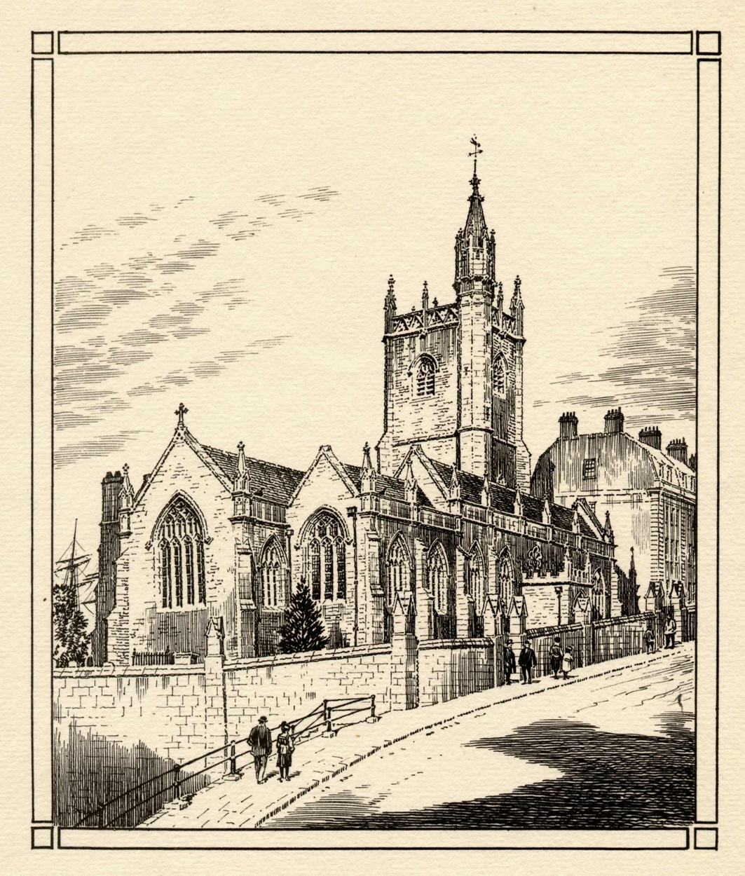 Plate etching of St Augustine the Less parish church, Bristol, England, published before 1958. The image shows a ship's masts on the far left in Green’s drydock. On the right of the image is the terrace of 1-7 College Green. This image is fictional as the terrace was demolished for the hotel of 1868, but the graveyard was not dug away on the north and east sides until 1892, necessitating the removal of 2500 skeletal remains, which were re-interred at Arnos Vale